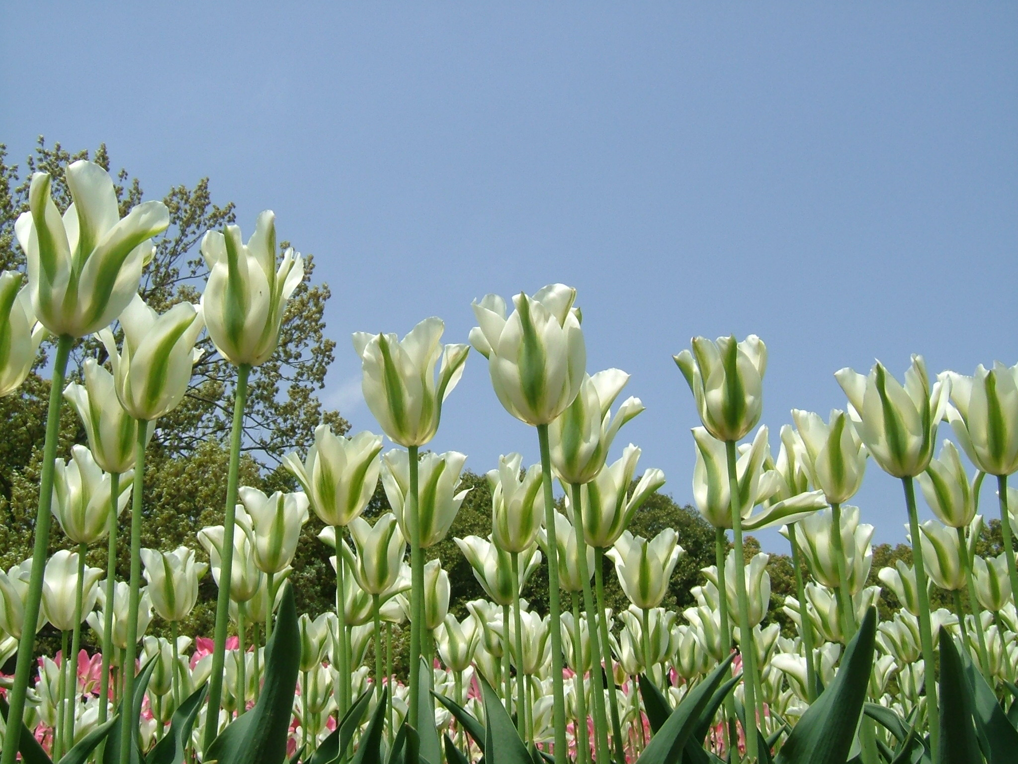 スプリンググリーン (Tulipa 'Spring Green') 京都府立植物園 (Kyoto Botanical Garden)